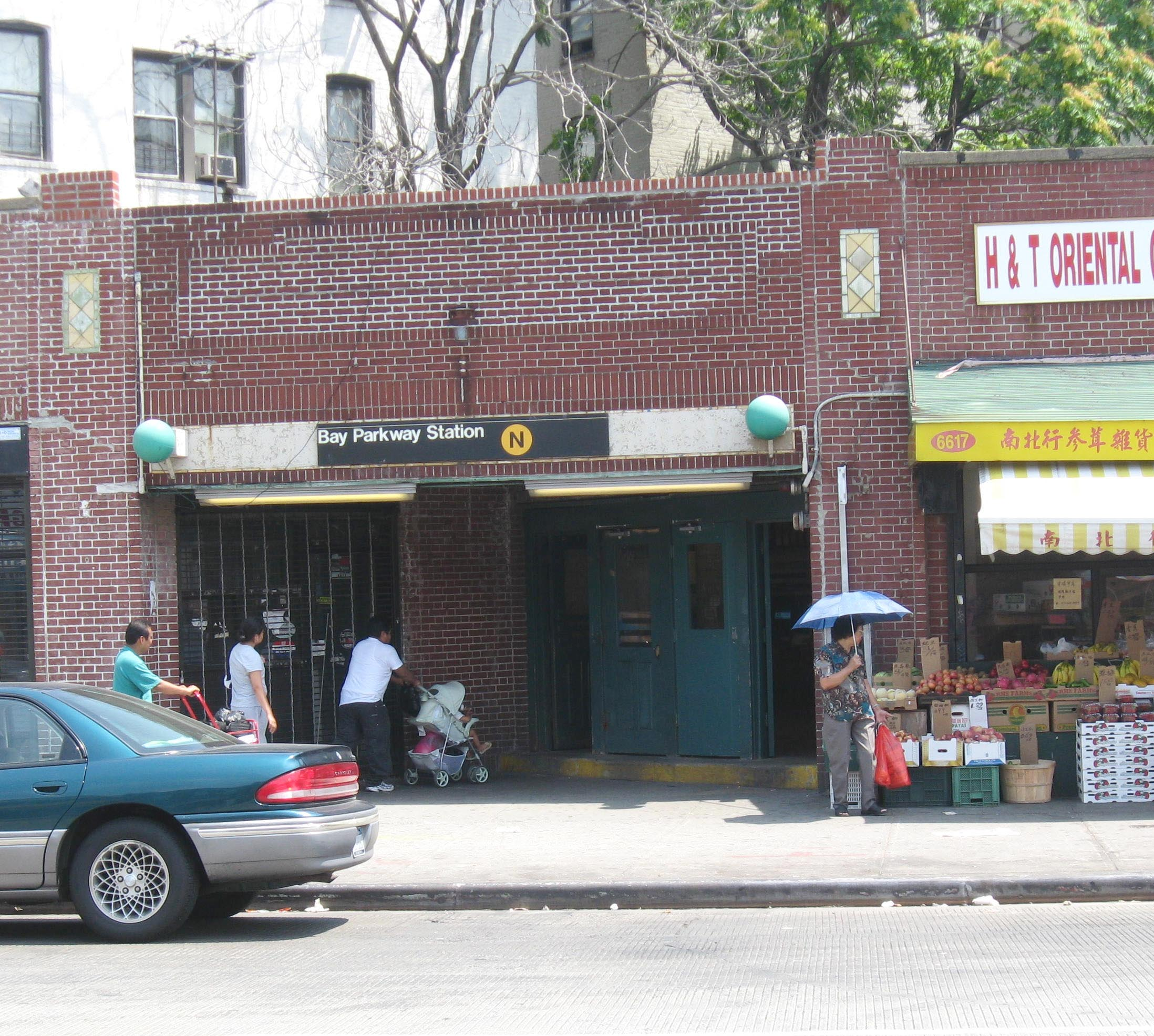 Looking east across Bay Parkway at headhouse of Bay Parkway (BMT Sea Beach Line) on a sunny midday of July 17, 2008.